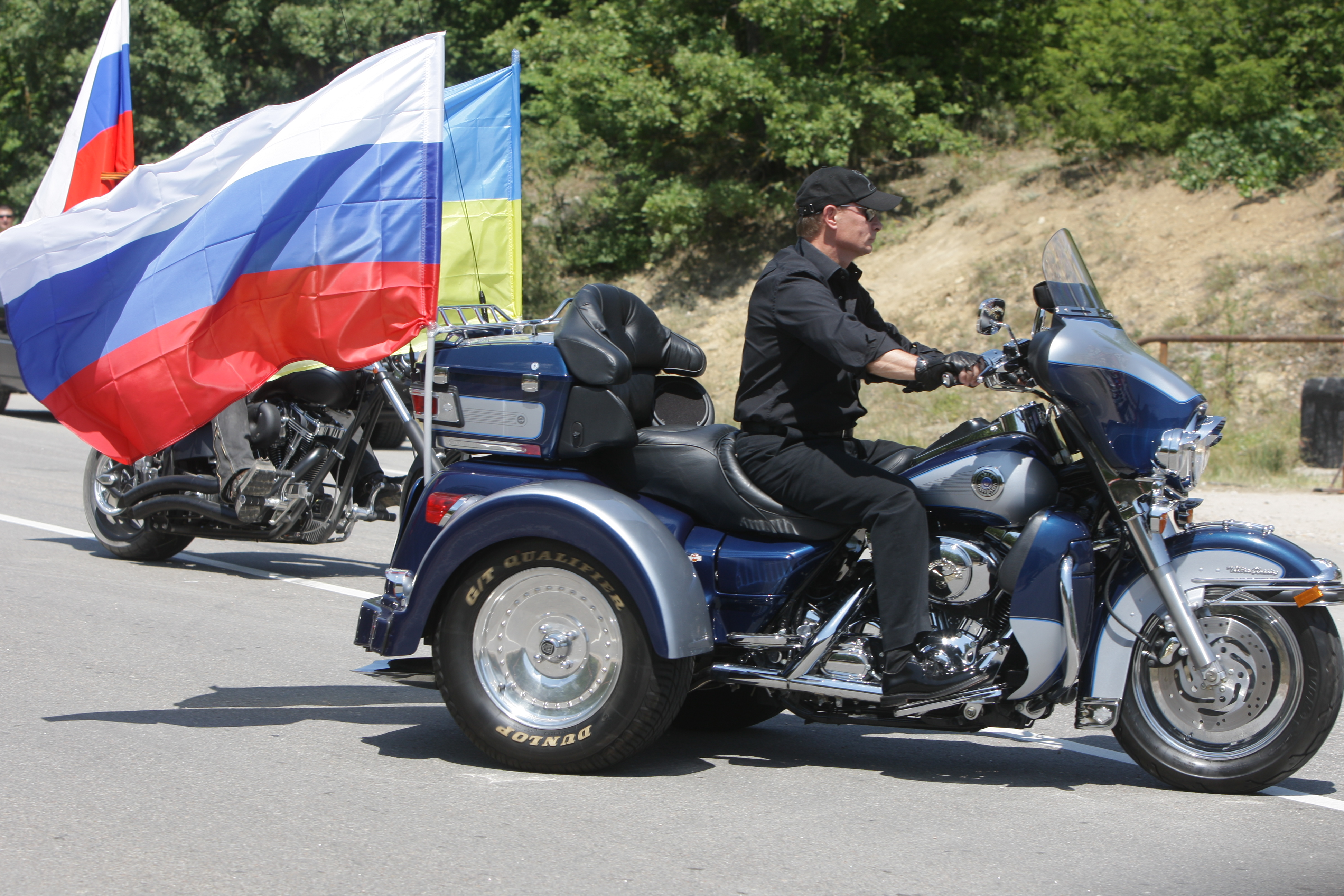 Prime Minister Vladimir Putin arrived at the 14th International Biker Rally in Sevastopol, Crimea, at Lake Gasfort, riding a Harley tricycle - a modified Harley Davidson Le Mans - decorated with the Russian and Ukrainian flags. The rally brought together bikers from Belarus, the Ukraine, Russia, Kazakhstan, Lithuania, Latvia, Germany, Slovakia, Bulgaria, Romania, Poland, Sweden, the Czech Republic, Serbia, the USA, and Israel in July 2010.